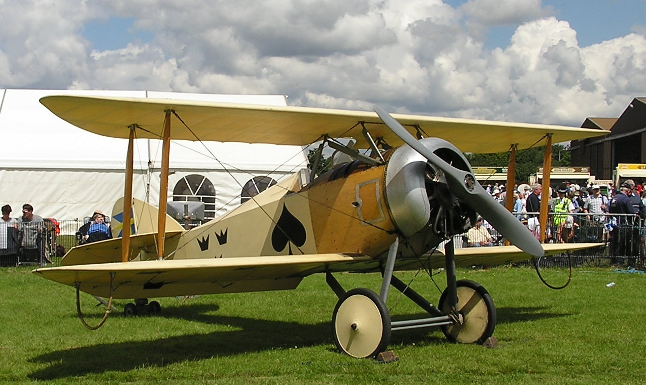 Replica FVM/CVM Ö1 "Tummelisa", built from orignal planes and with an original Thulin A radial engine, exhibited at Flying Legends, Duxford on 8 July 2007.